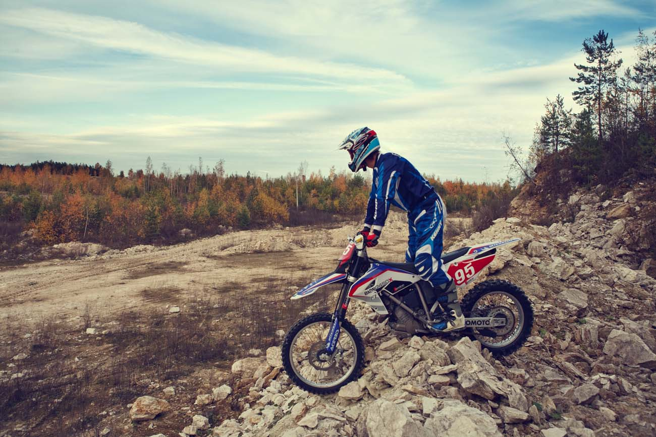 Naumov Aleksey, russian motorcycle racer